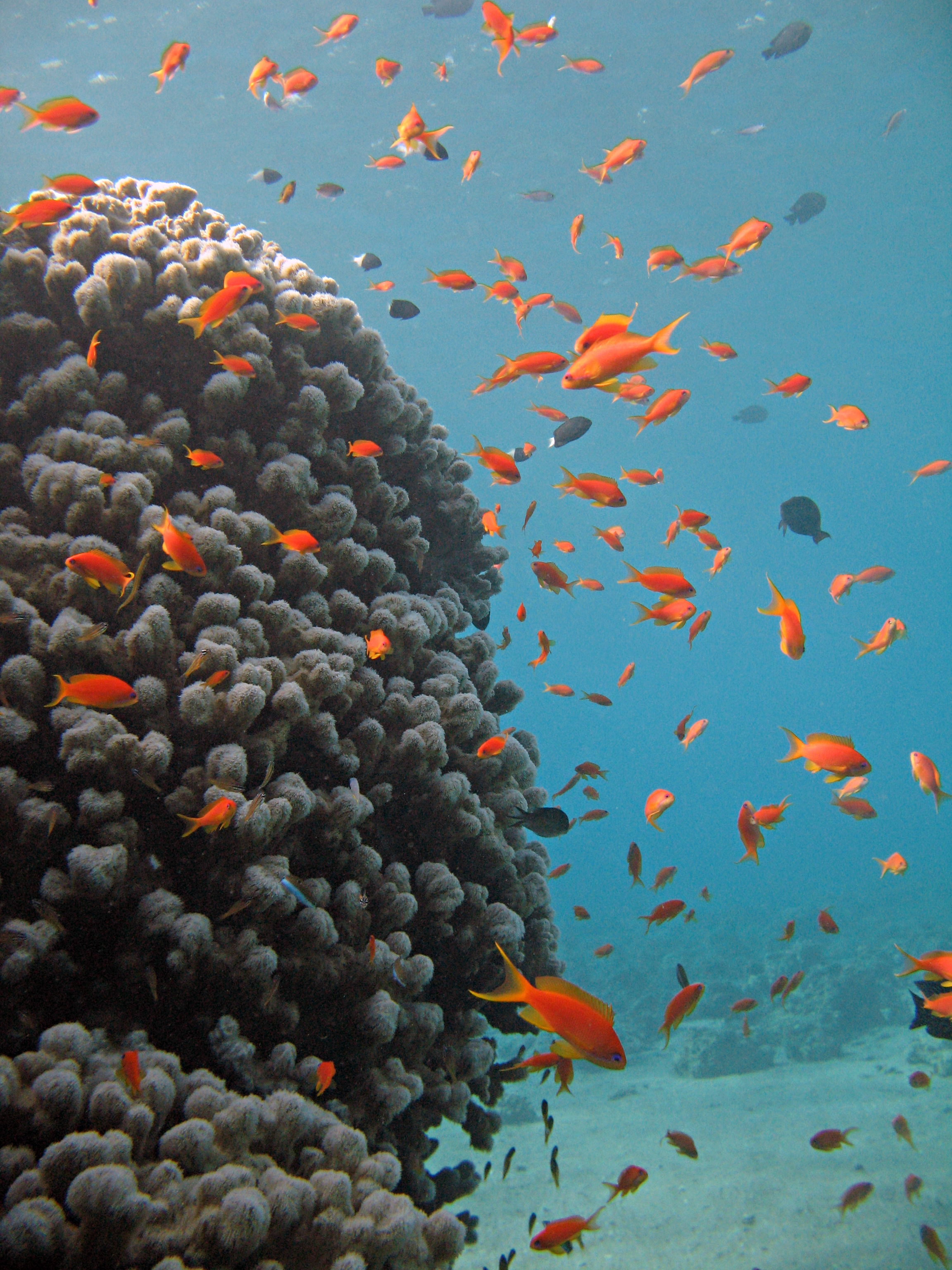 Sea goldies (Pseudanthias squamipinnis) swimming next to a coral, the Red Sea, Gulf of Eilat, Israel.